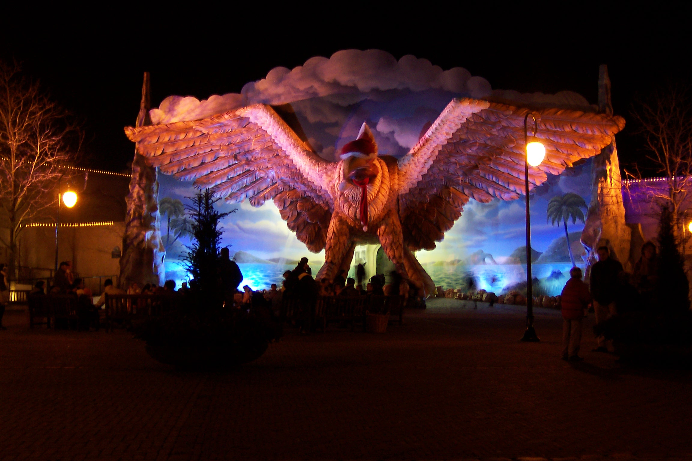 Vogel Rok in the Dutch amusement park 'Efteling' during the 'Winterefteling'